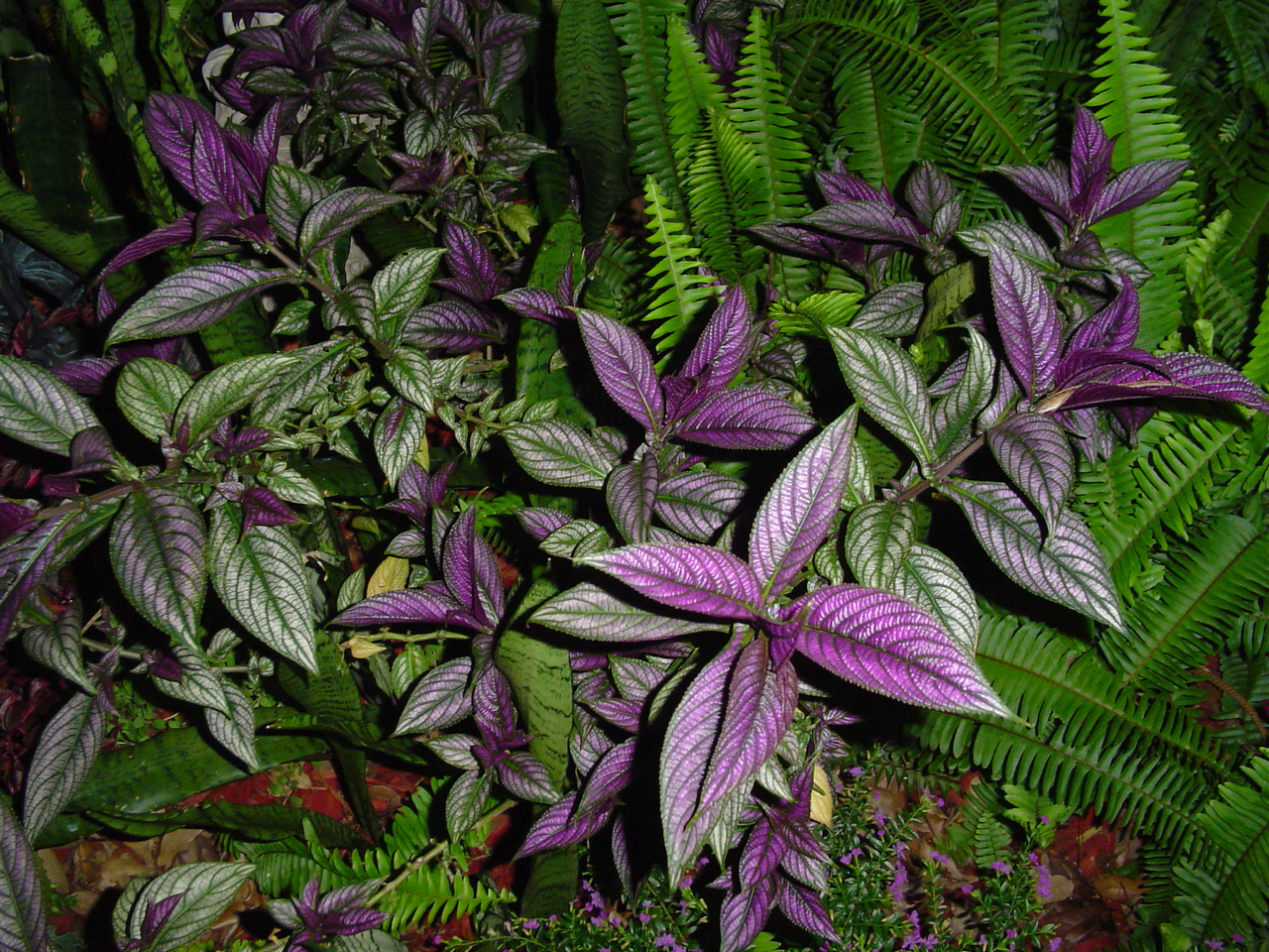 Persian Shield (Strobilanthes dyerianus)